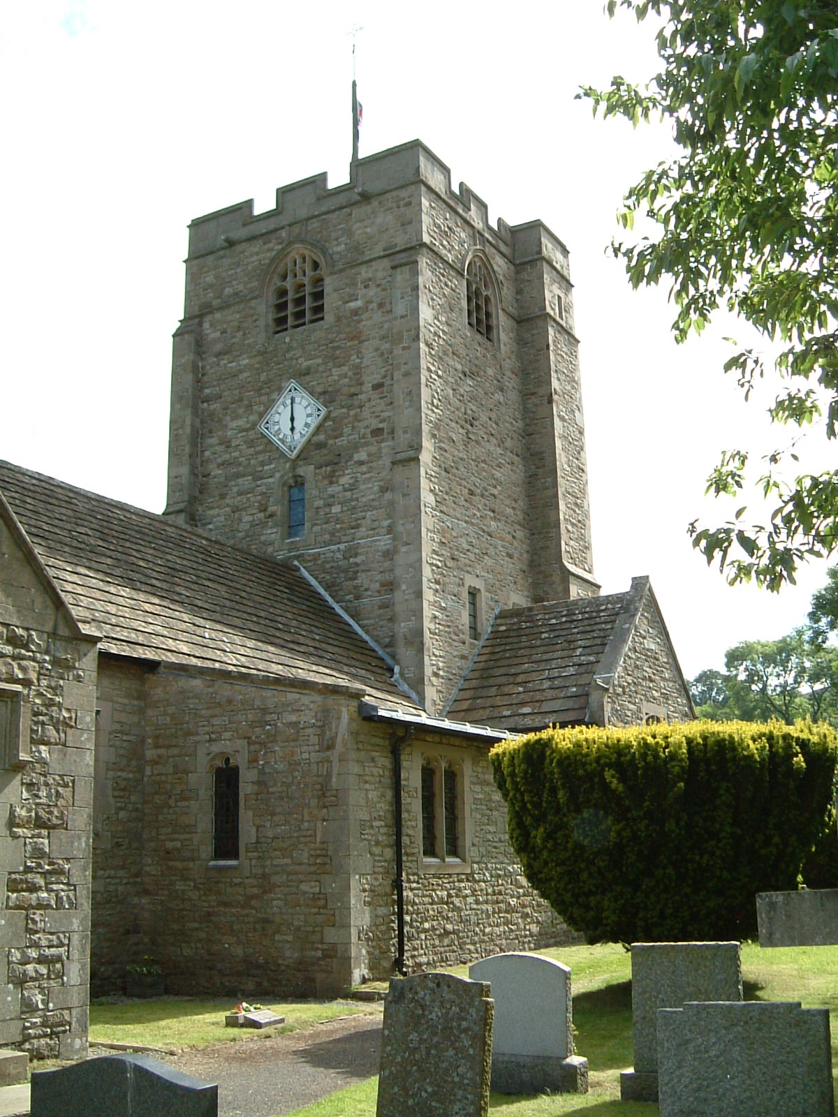 Central tower of St Bartholomew's parish church, Barbon, Cumbria, seen from the west